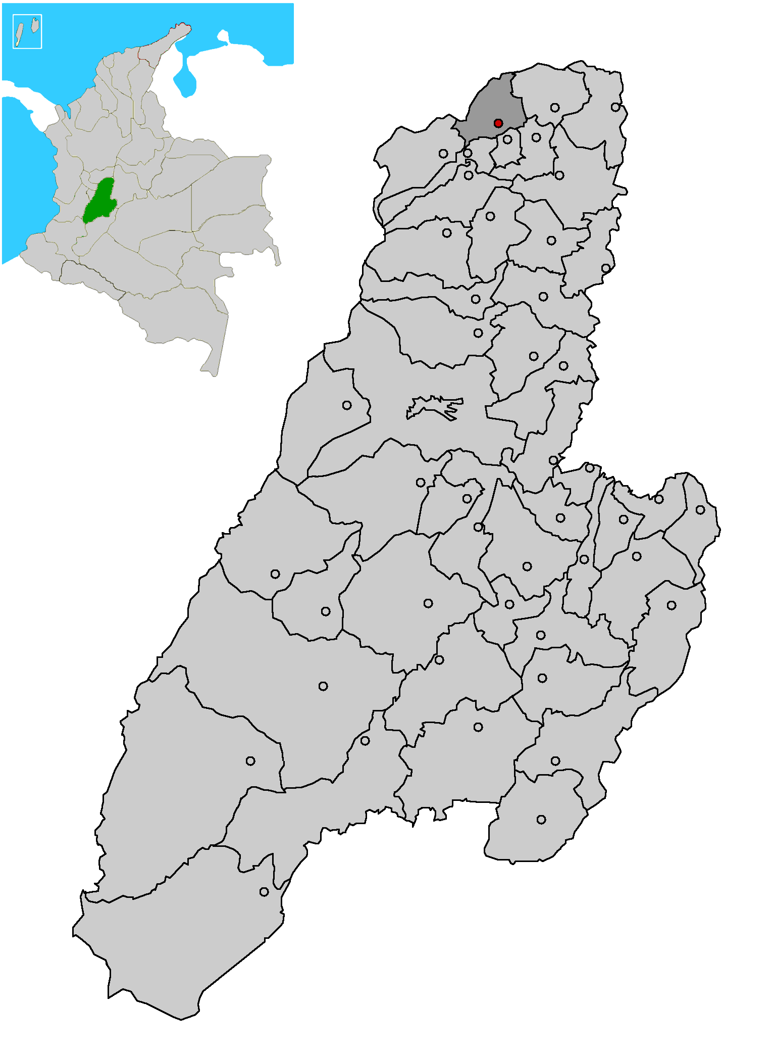 Image depicting map location of the town and municipality of Fresno in Huila Department, Colombia